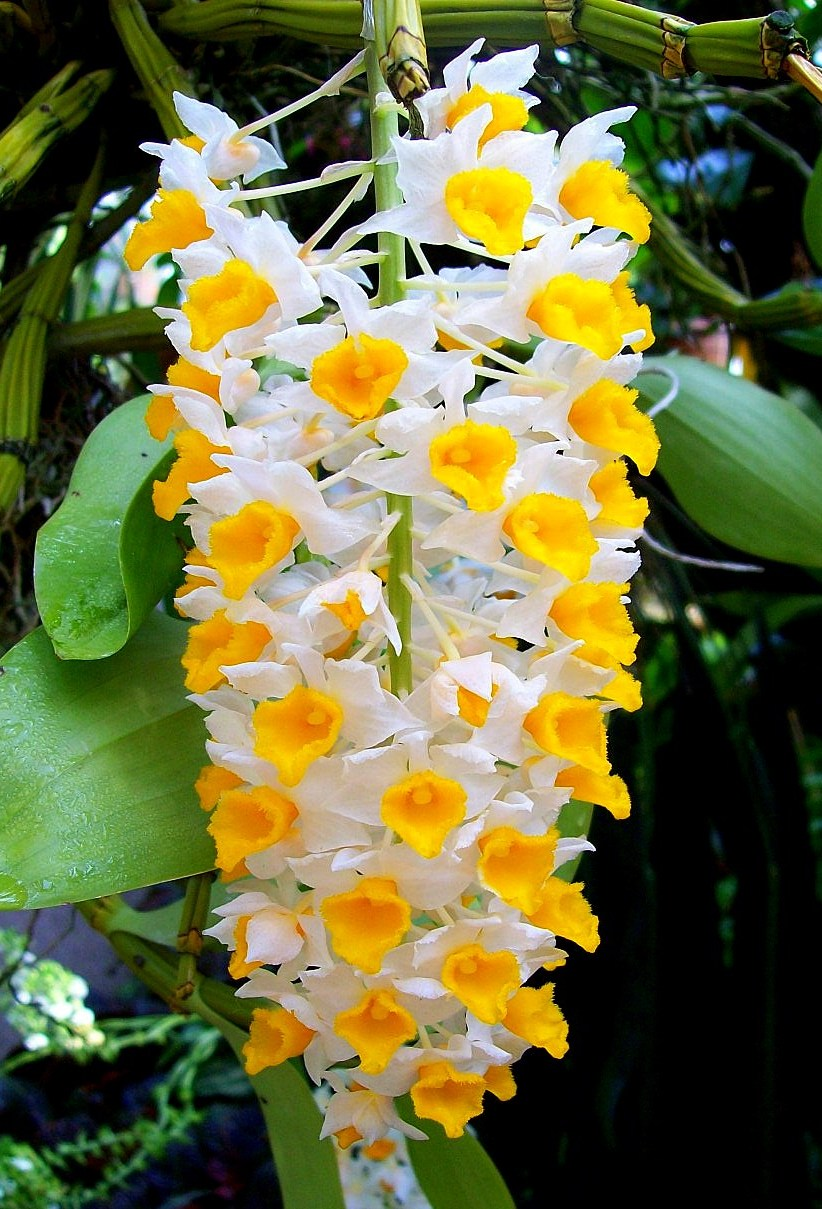 Dendrobium thyrsiflorum, Botanical Garden Heidelberg